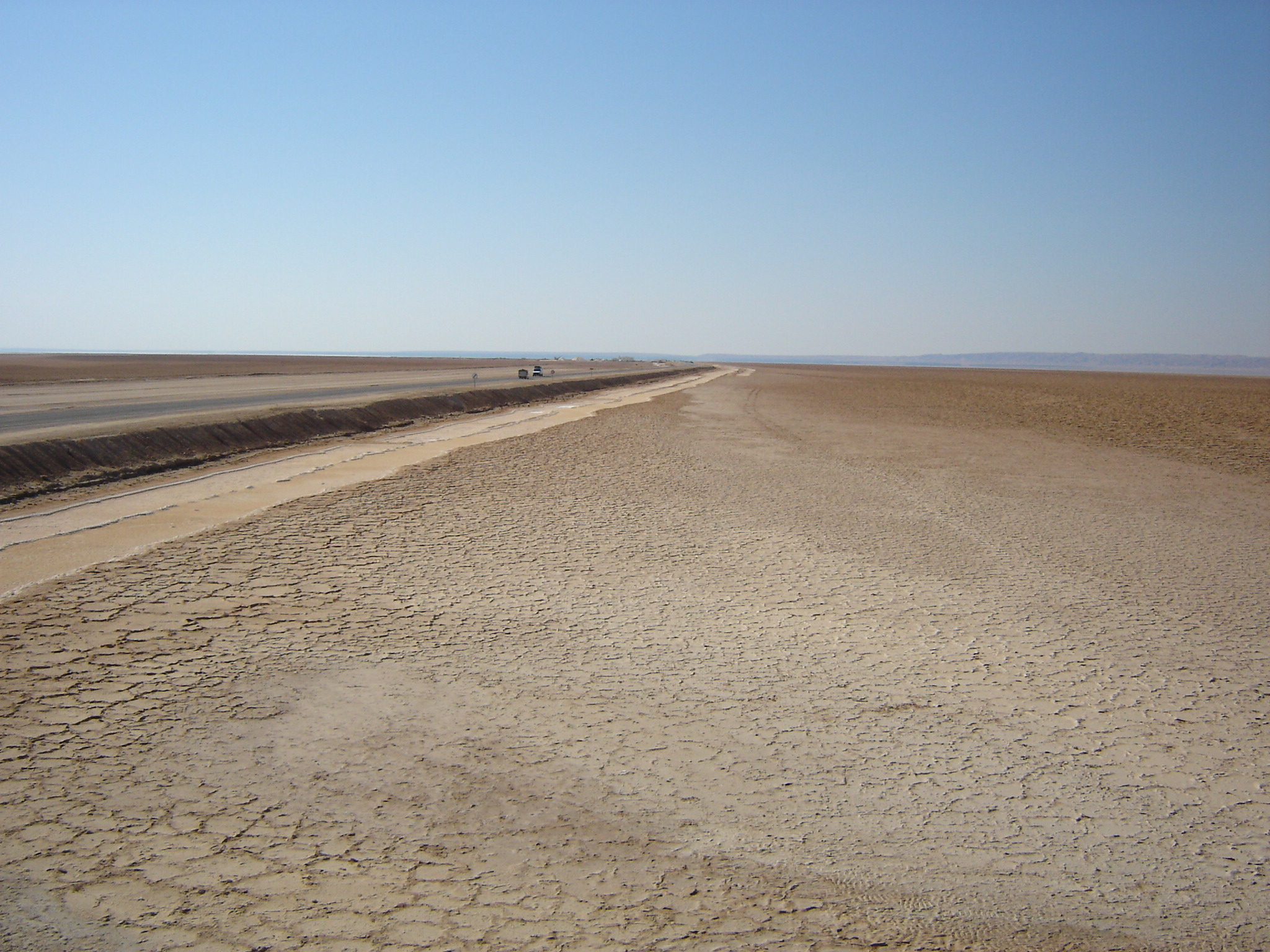 Chott el Djerid, Tunisia Source: Self-made, October 2004 Author: BishkekRocks